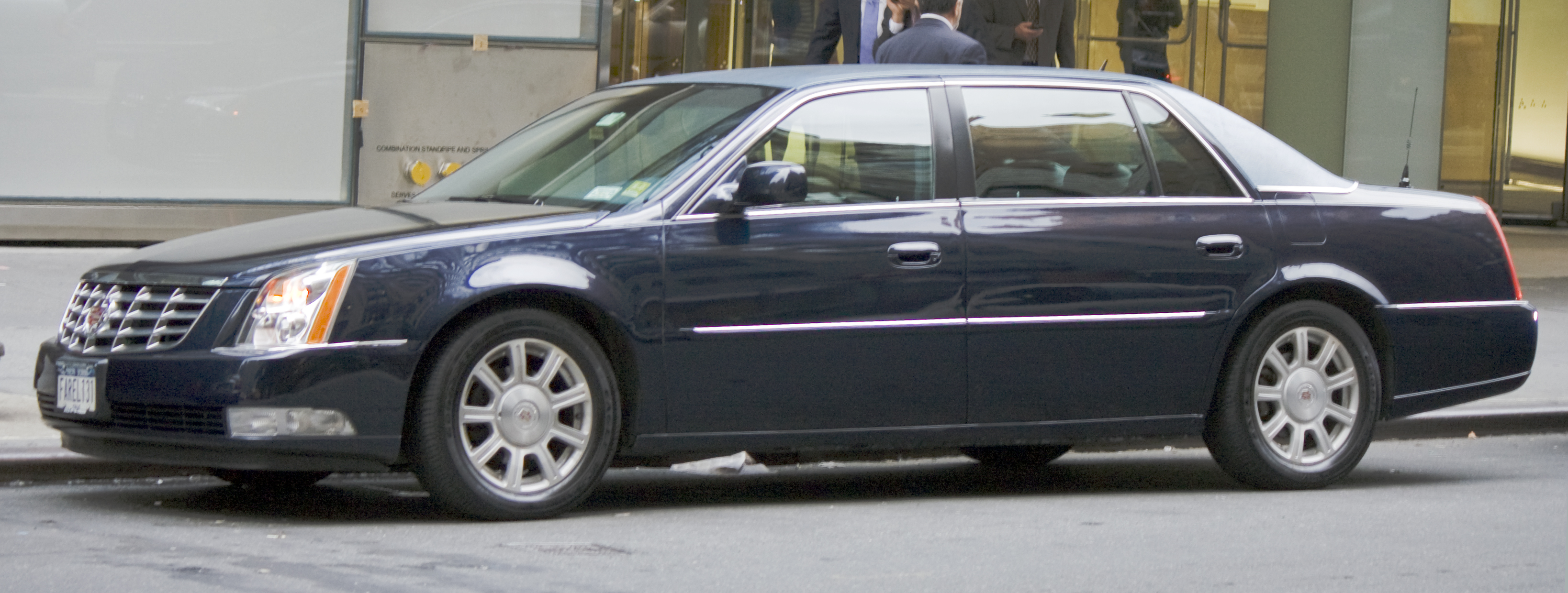 2008 Cadillac DTS-L, facelifted version (longer rear door) of a lightly stretched DTS which was originally available from November 2006. This was built by Accubuilt at Cadillac's behest.